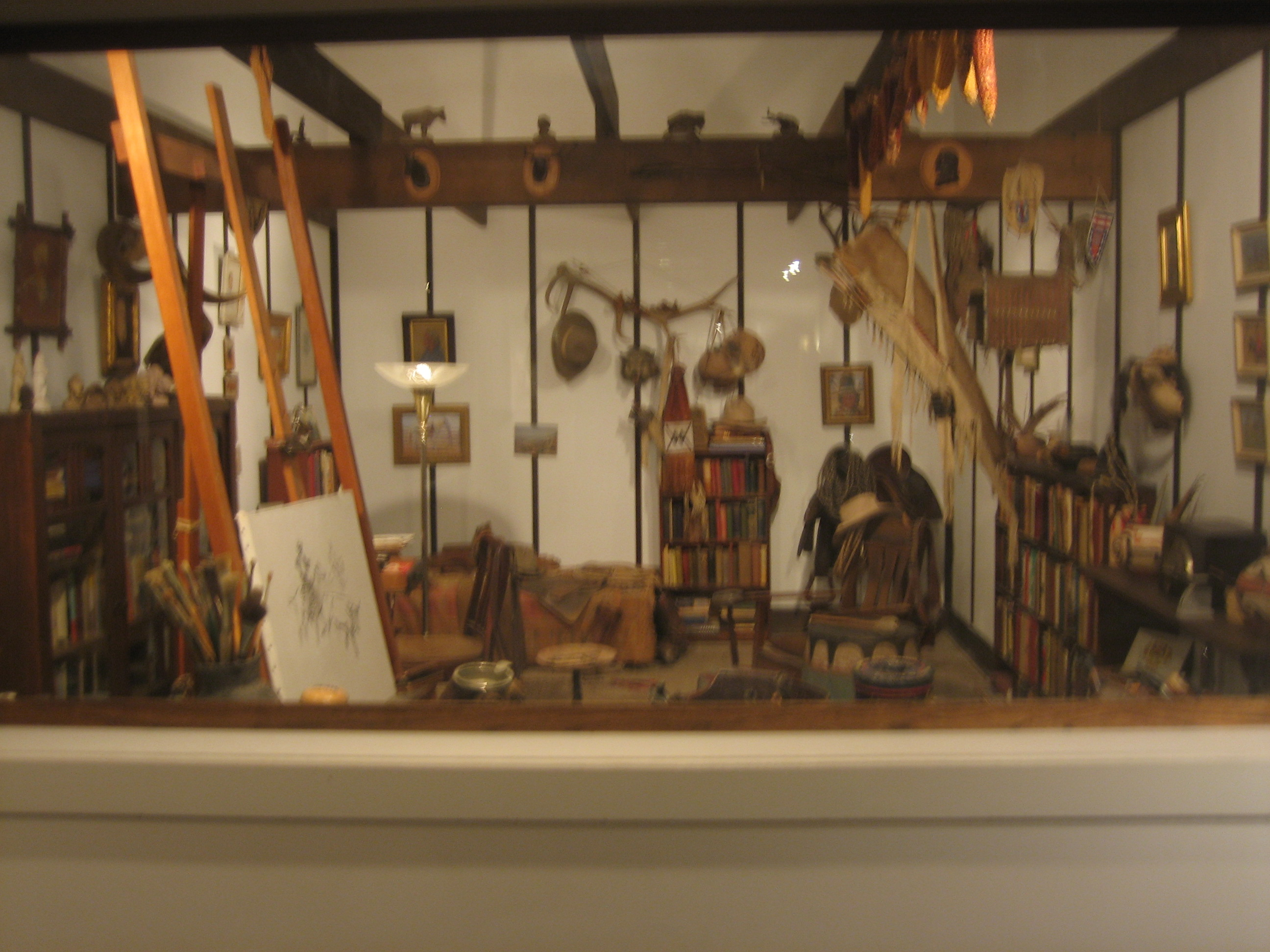 I took this photo on April 5, 2008.Billy Hathorn (talk) 23:27, 28 June 2008 (UTC)